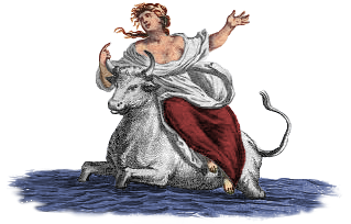 Europa and the bull as seen in the New and accurate description of the whole of Europe (1700).